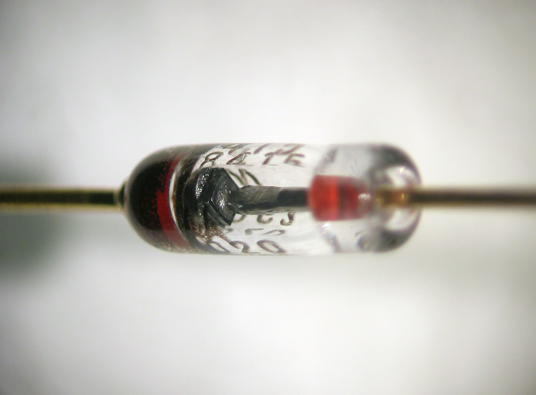 Close-up view of a silicon diode. The anode is at the right side; the cathode is at the left side (where it is marked with a black band). A square silicon crystal can be seen between the two leads. I, John Maushammer, took this picture Aug 2, 2006.